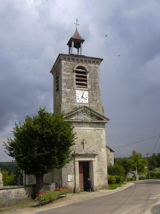 Saint Nicolas' church in Lamothe-en-Blaisy (Haute-Marne, Champagne-Ardennes, France).